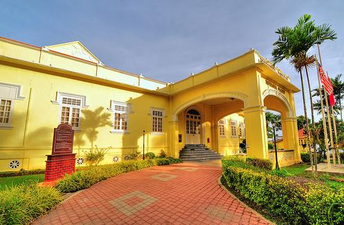 Istana Batu Royal MuseumBahasa Melayu: Muzium Diraja Istana Batu